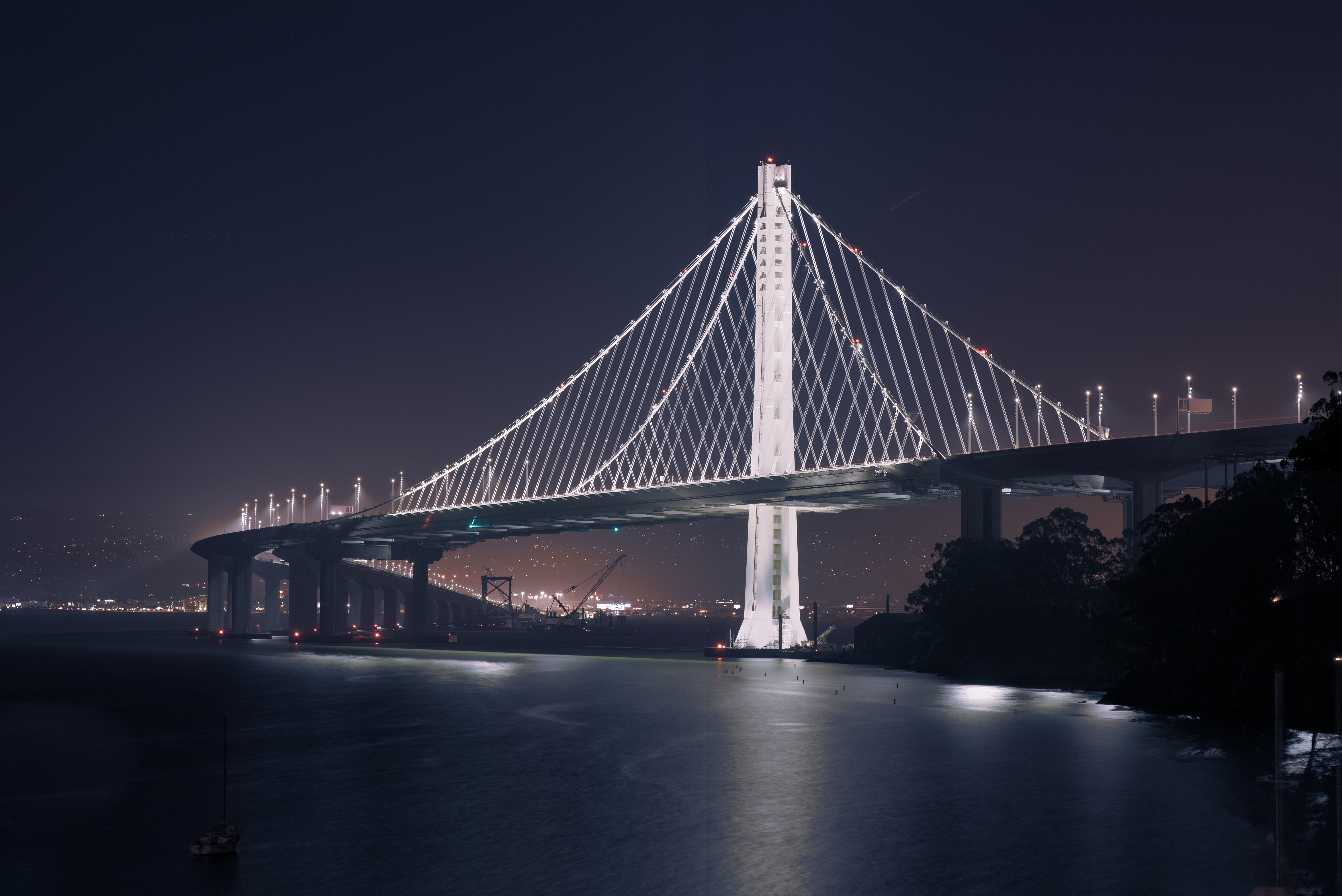 The eastern span of the San Francisco-Oakland Bay Bridge at dusk as seen from Yerba Buena Island.